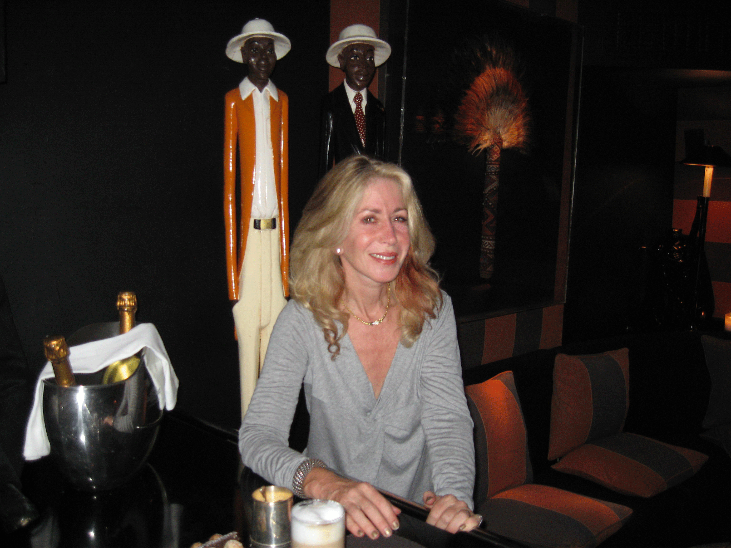 Roxanne Seeman at Blake's in London, England.